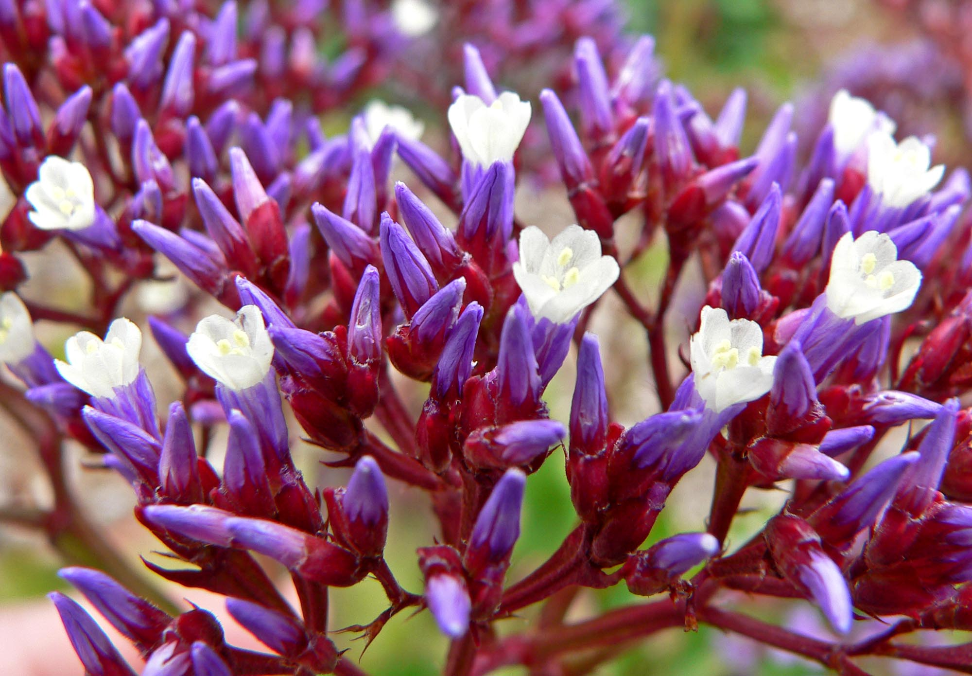 Photo of Limonium perezii at the San Francisco Botanical Garden